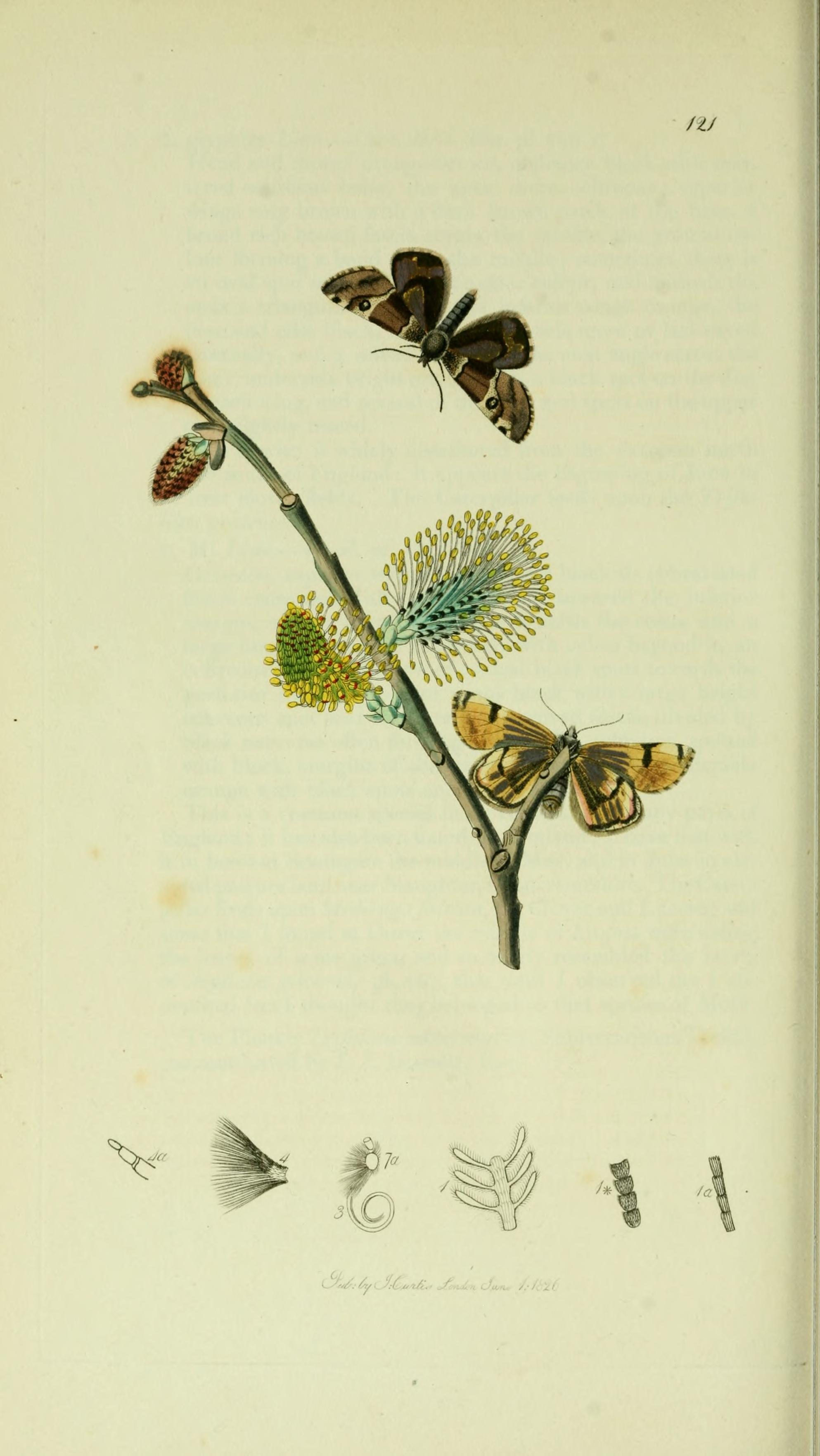 An illustration from British Entomology by John Curtis. Brepha notha or Archiearis notha (Light Orange-underwing).